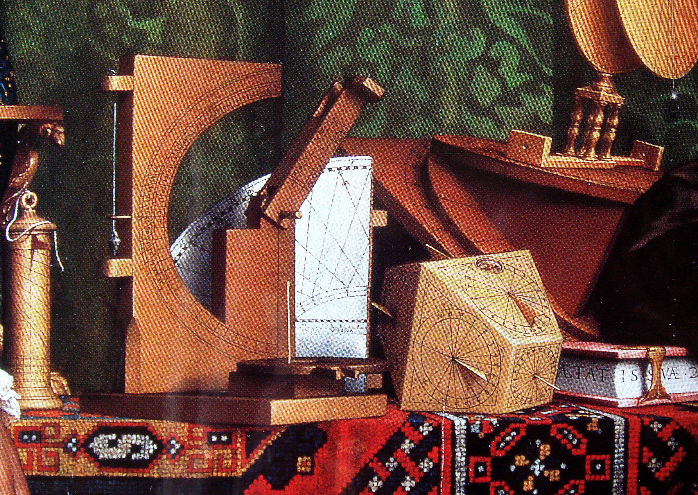 Instruments_in_the_Ambassadors